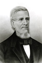 Reuben Wood, Ohio politician.